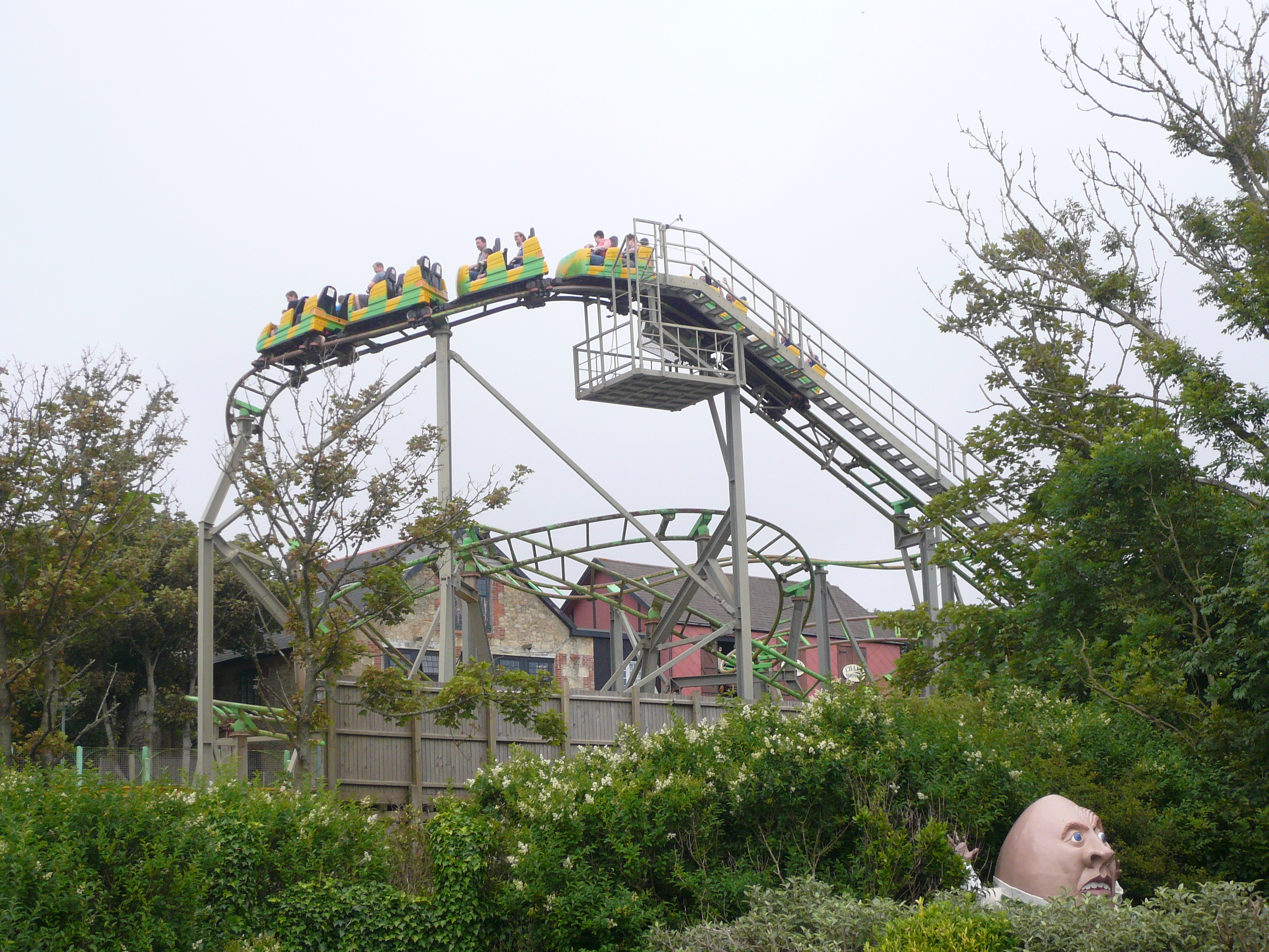 The back of the Cliffhanger rollercoaster ride at Blackgang Chine, a theme park on the Isle of Wight.